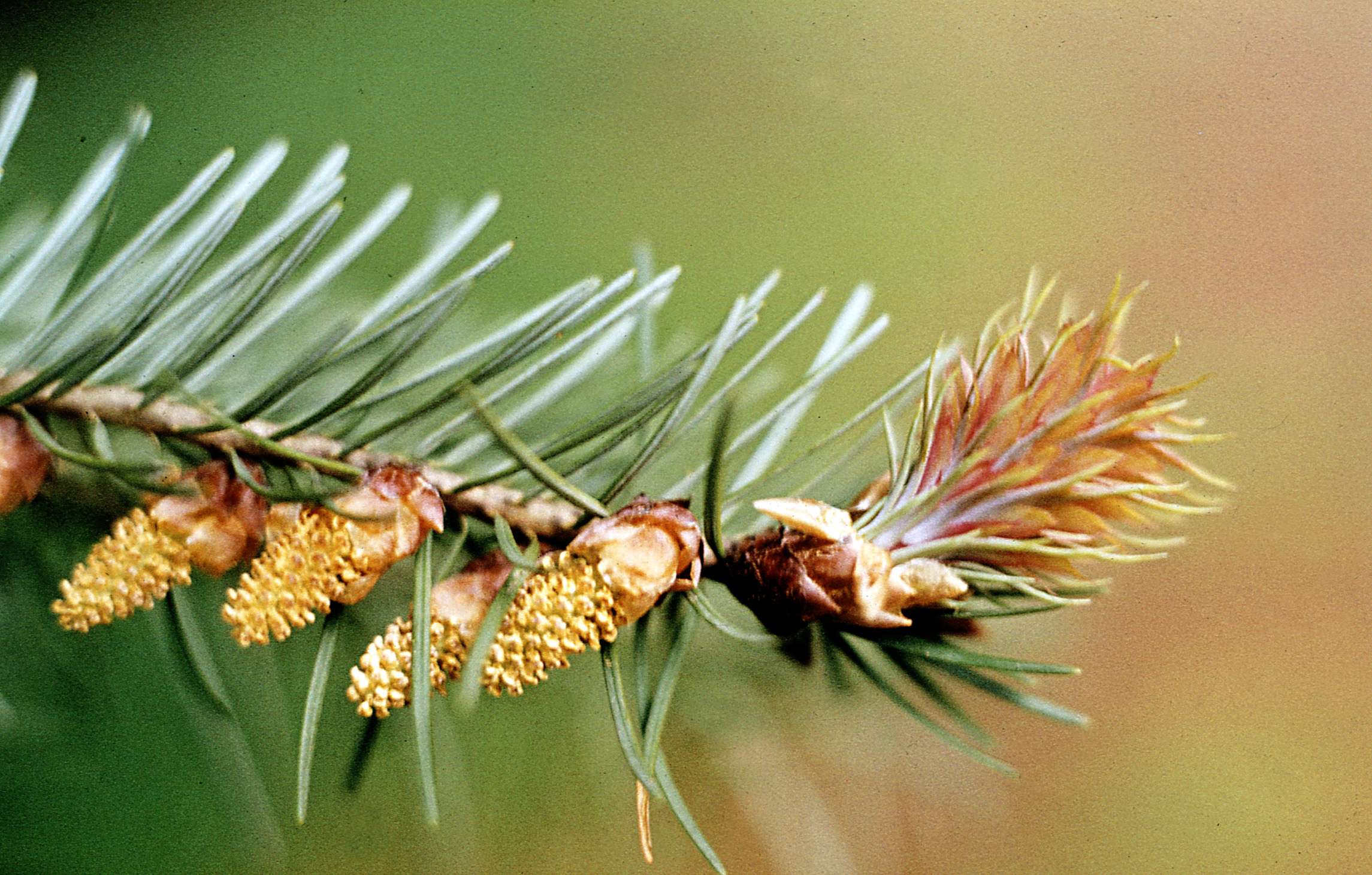 Micro & macrostrobili of Pseudotsuga menziesii (photo:Mihailo Grbić, 19.04.1982. Arboretum Šumarskog fakulteta, Beograd)